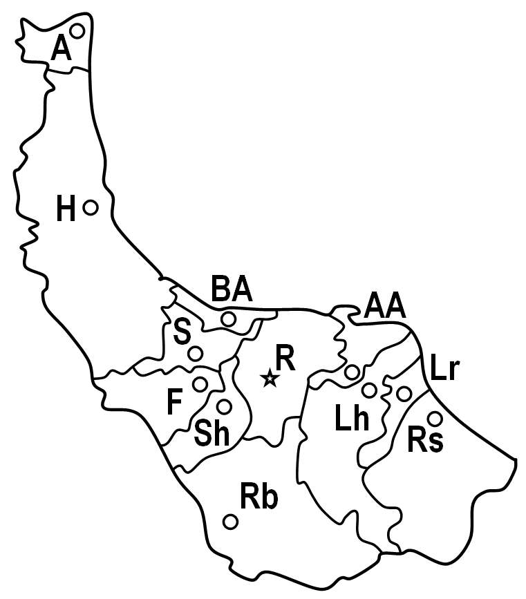 Map of Gilan province, Iran